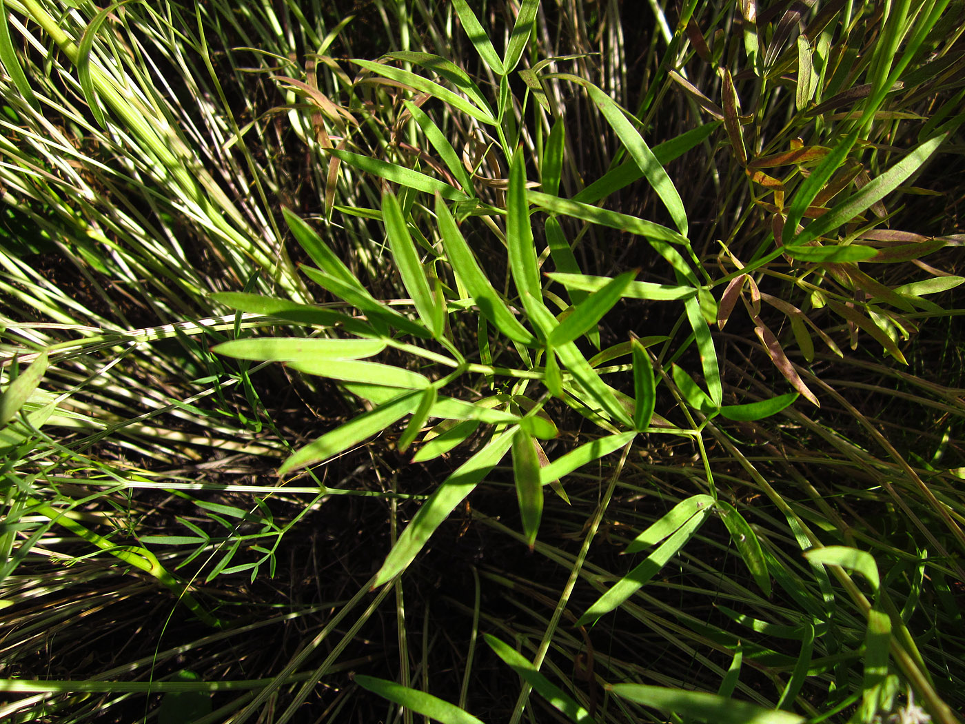 Peucedanum ruthenicum. Fragment of leaf. Oril river valley, Ukraine